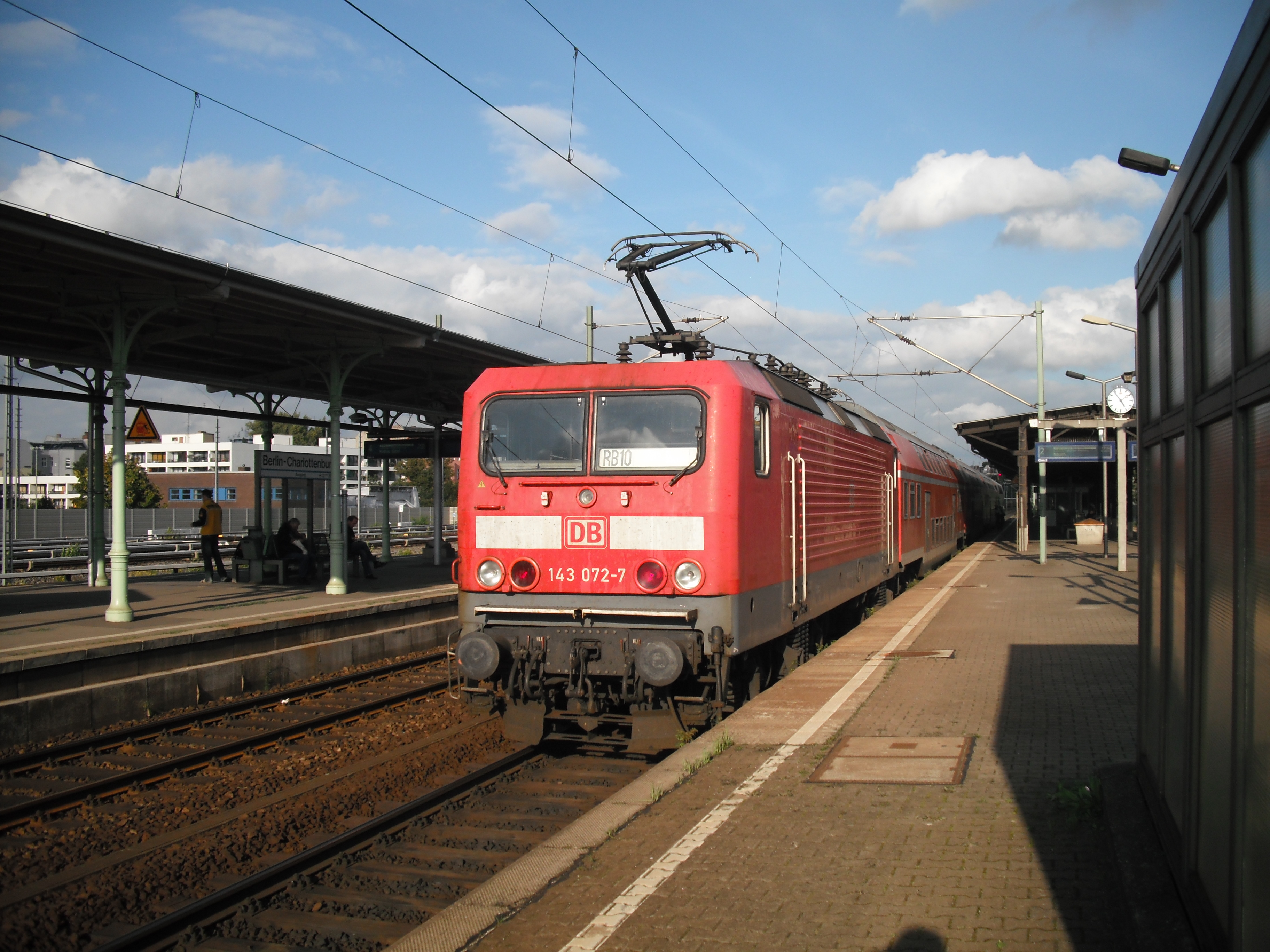 DB 143 072 with a Regional Bahn service at Berlin-Charlottenburg